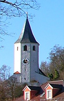 This is a photograph of an architectural monument.